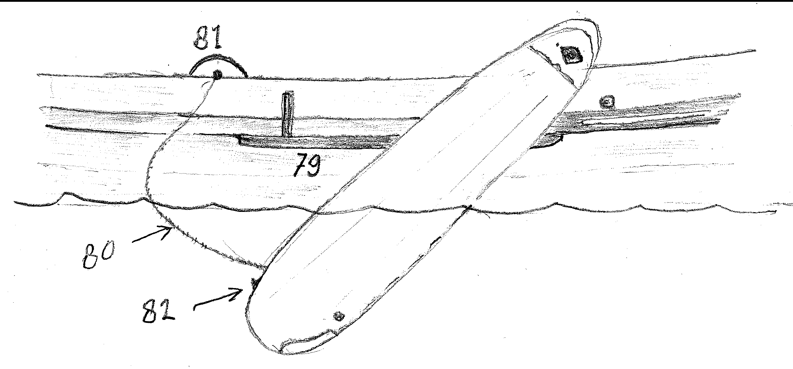 Daggerboard on Volendammer kwak (traditional dutch fishing vessel) Pencil drawing, 2003 Author: Henk de Boer